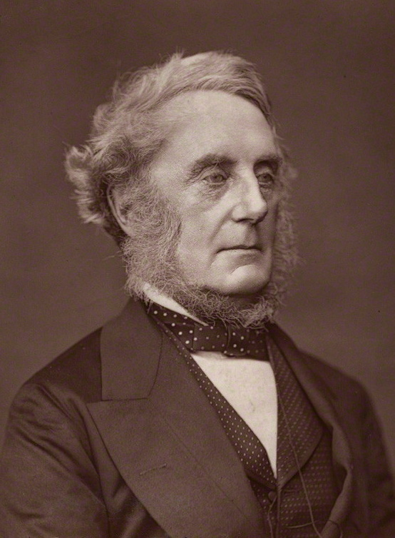 Edward Cardwell, 1st Viscount Cardwell (1813-1886)